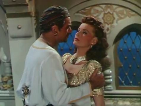 Douglas Fairbanks, Jr. and Maureen O'Hara in the American film Sinbad the Sailor (1947) - trailer (cropped screenshot)